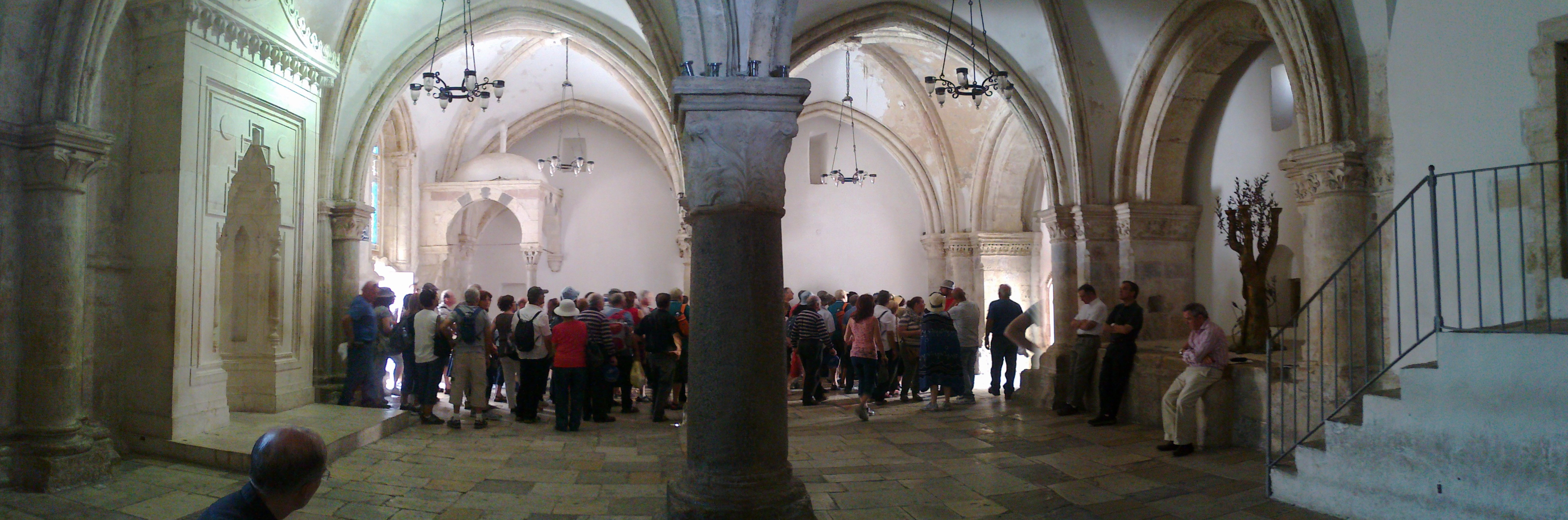 A panoramic view of the Cenacle in Jerusalem